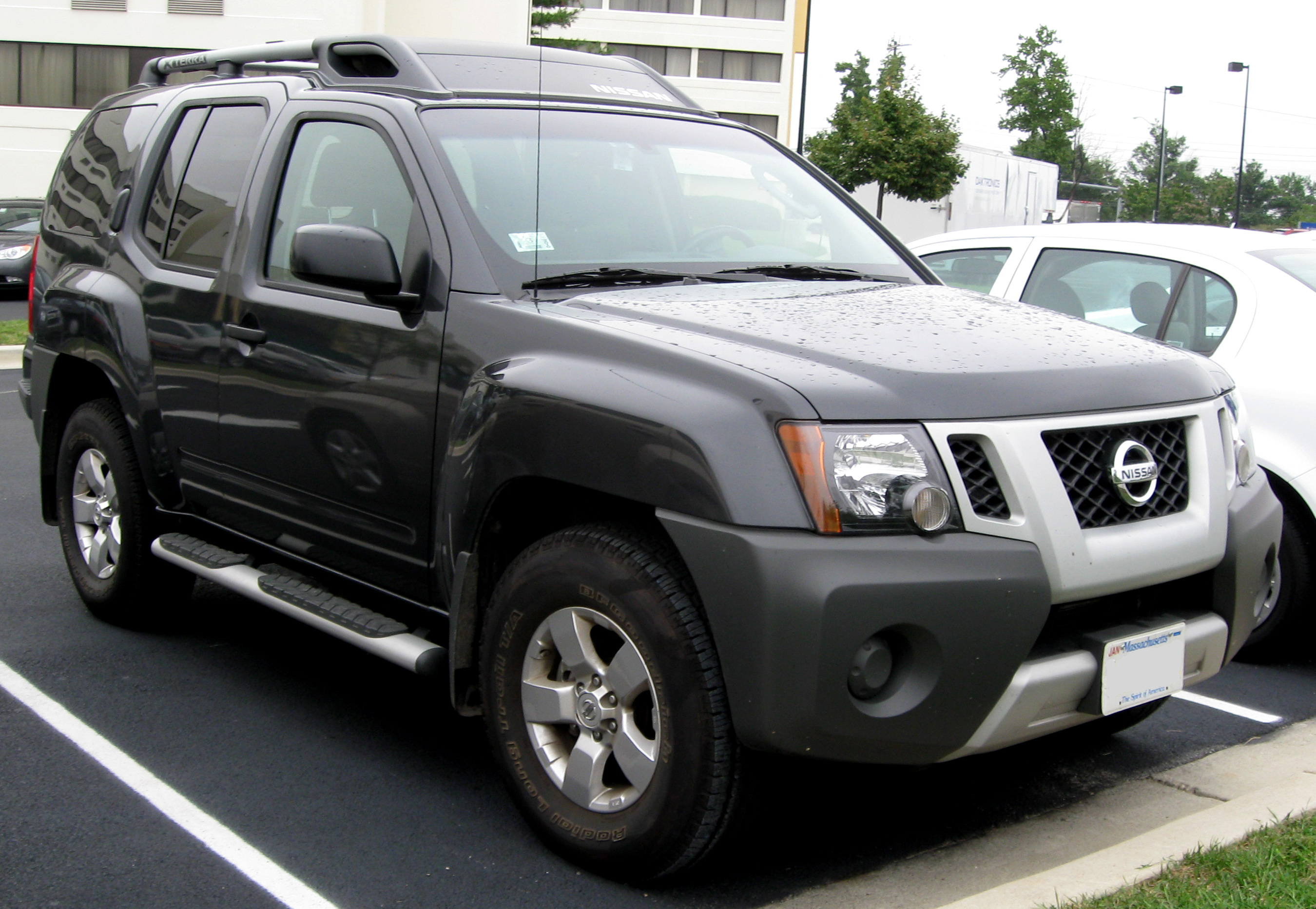 2009 Nissan Xterra photographed in College Park, Maryland, USA.